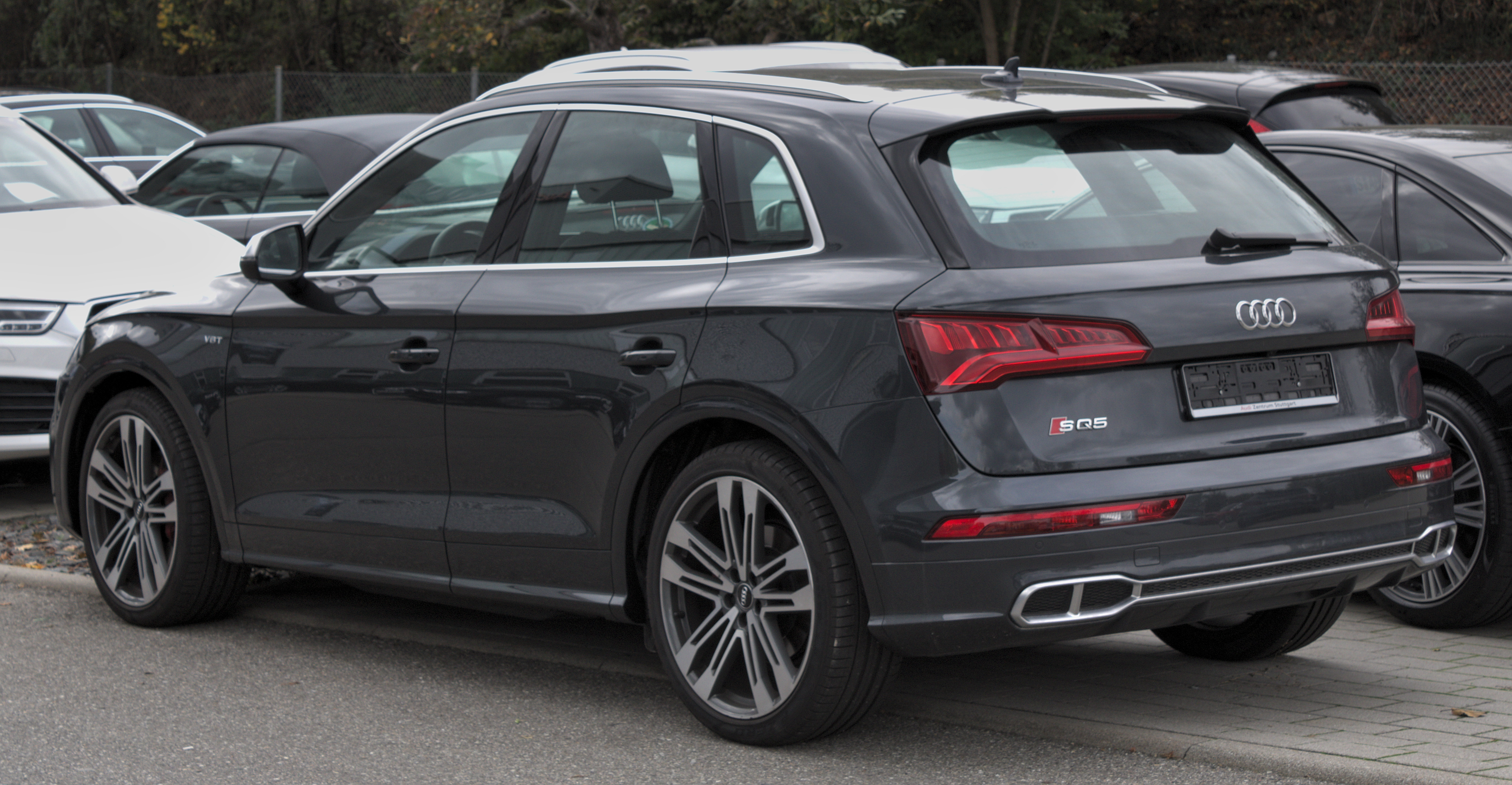 Audi_SQ5_(FY) in Stuttgart-Vaihingen